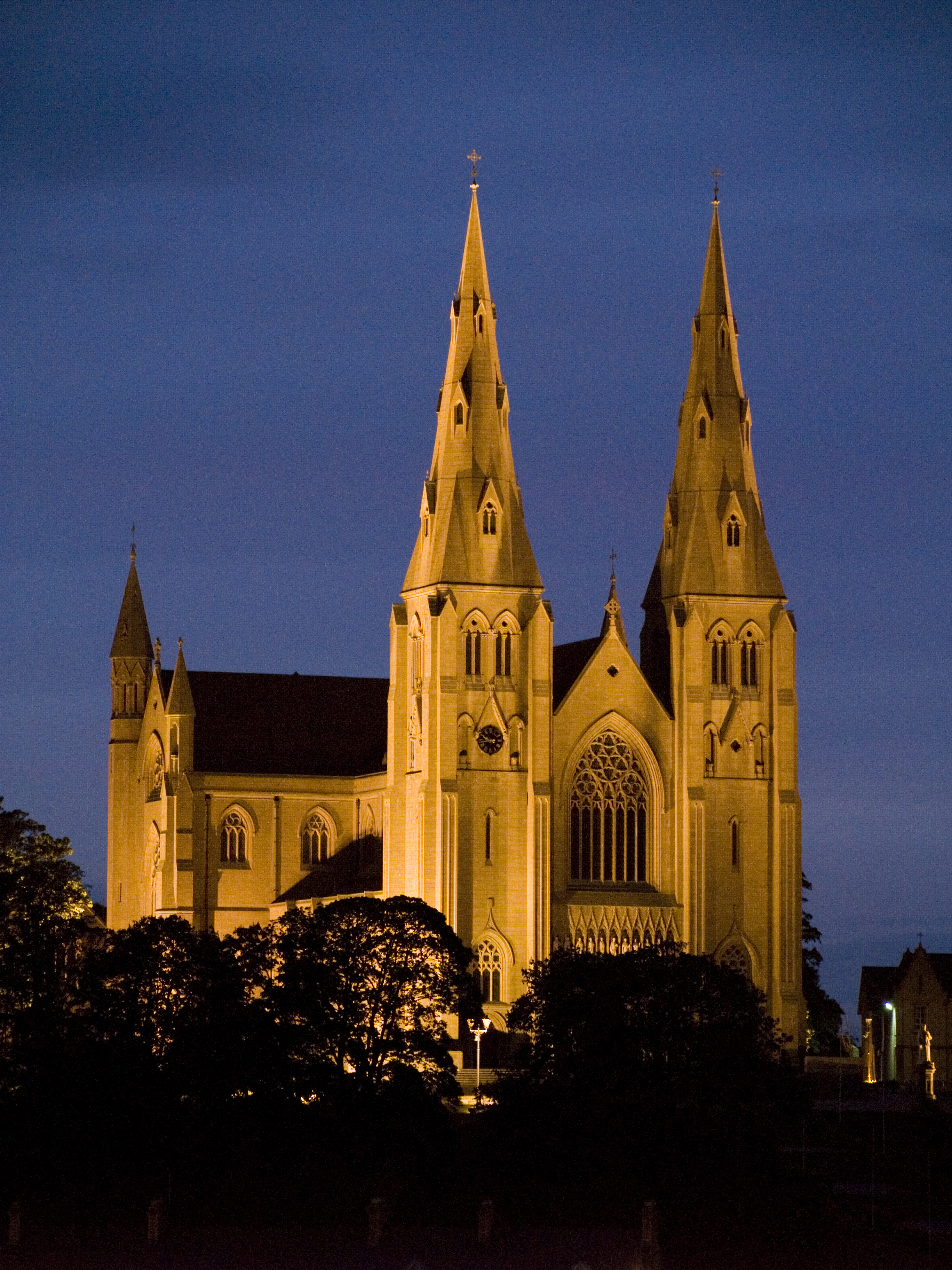 Armagh, Co Armagh.